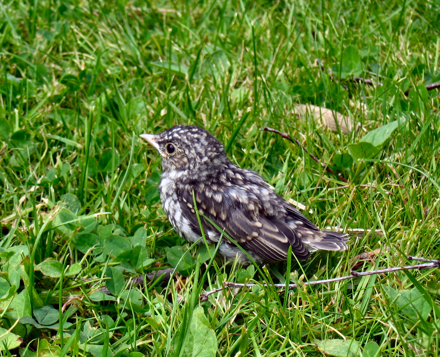 Juvenile fieldfare (Turdus pilaris). Picture taken in Tjorn, western Sweden.